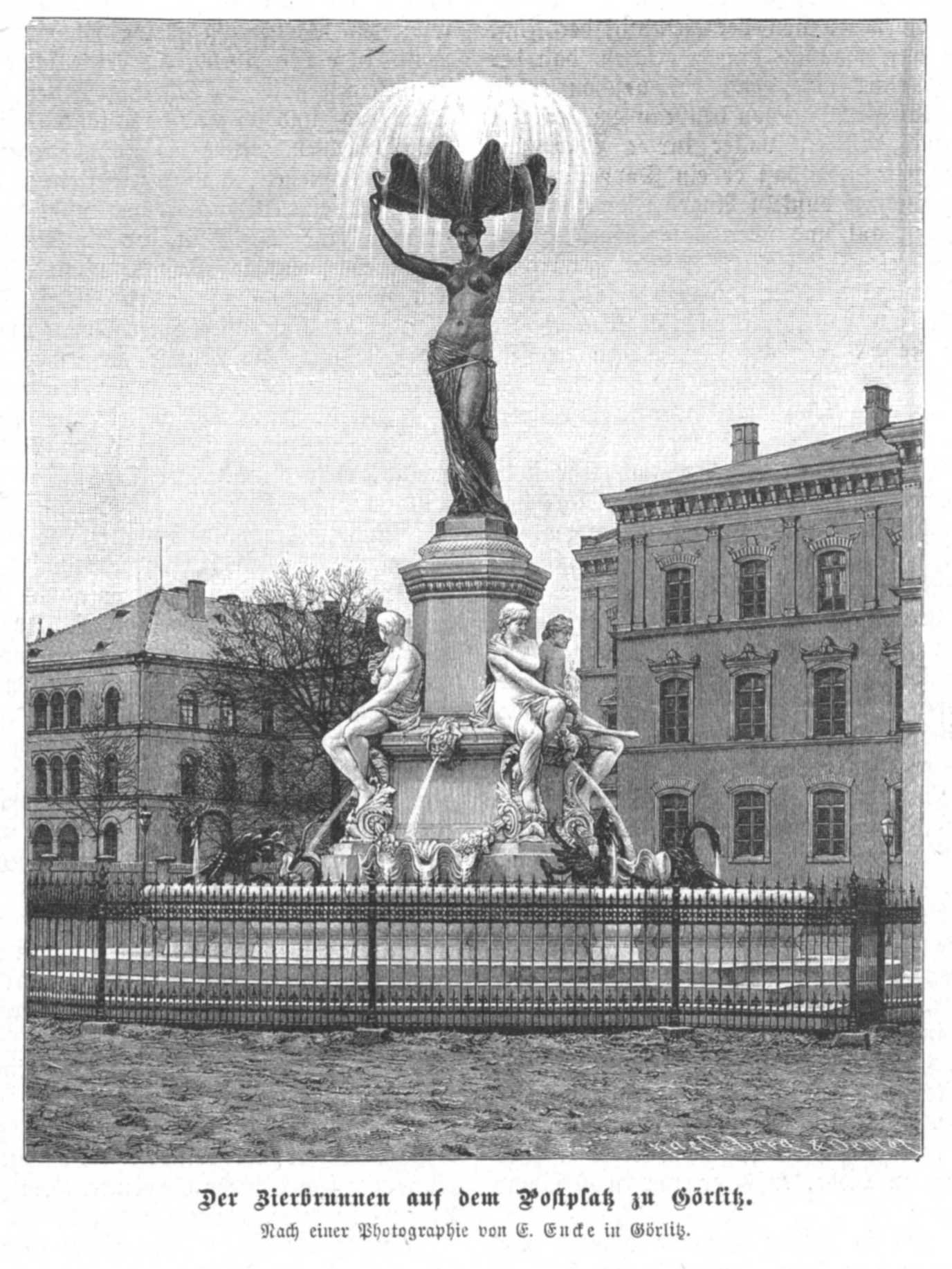 caption: "Der Zierbrunnen auf dem Postplatz zu Görlitz. Nach einer Photographie von E. Encke in Görlitz."